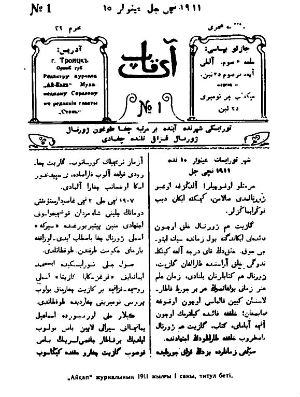 Ayqaptıñ 1911 jılğı 1 sanı